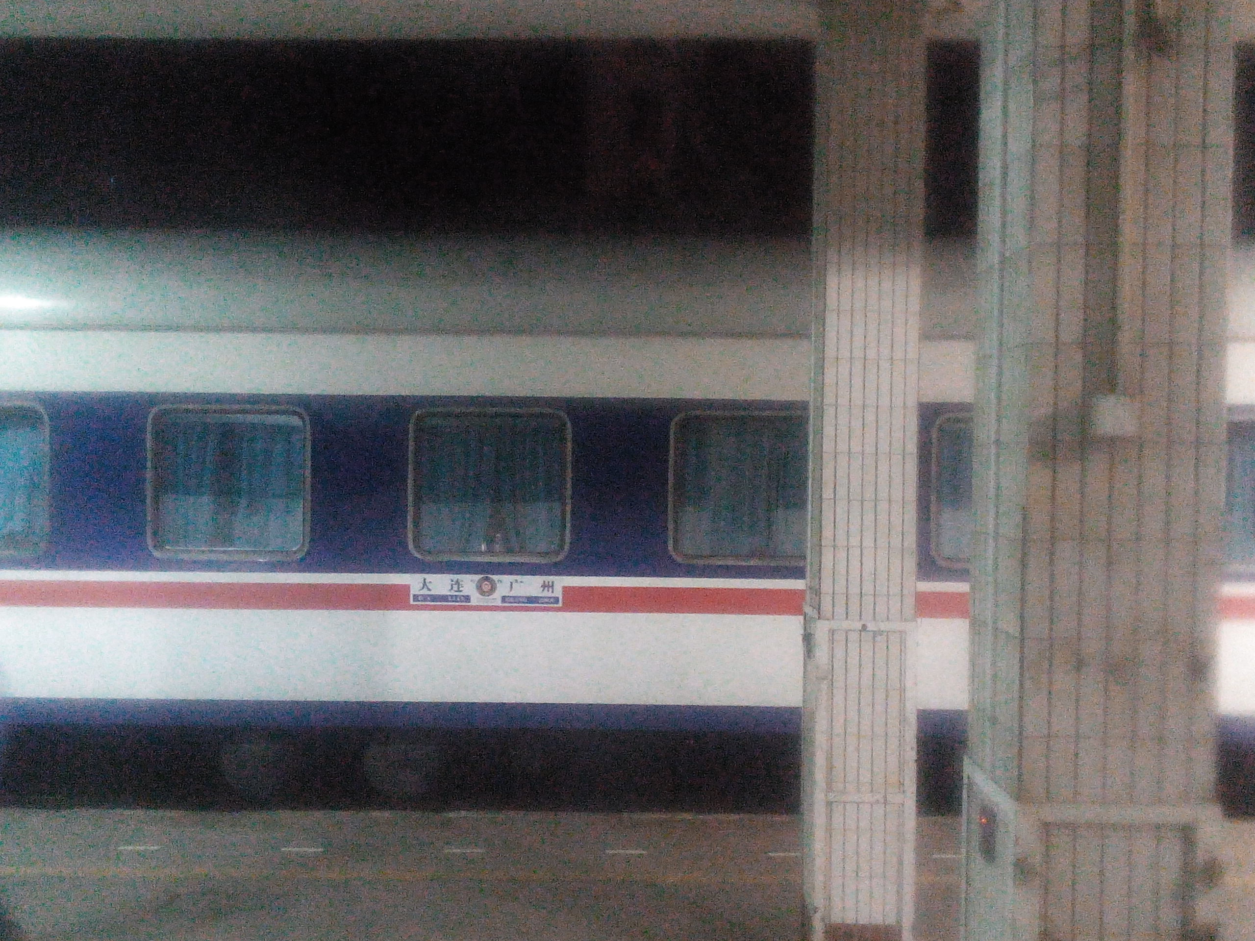 201504 T370 at Zhuzhou Station